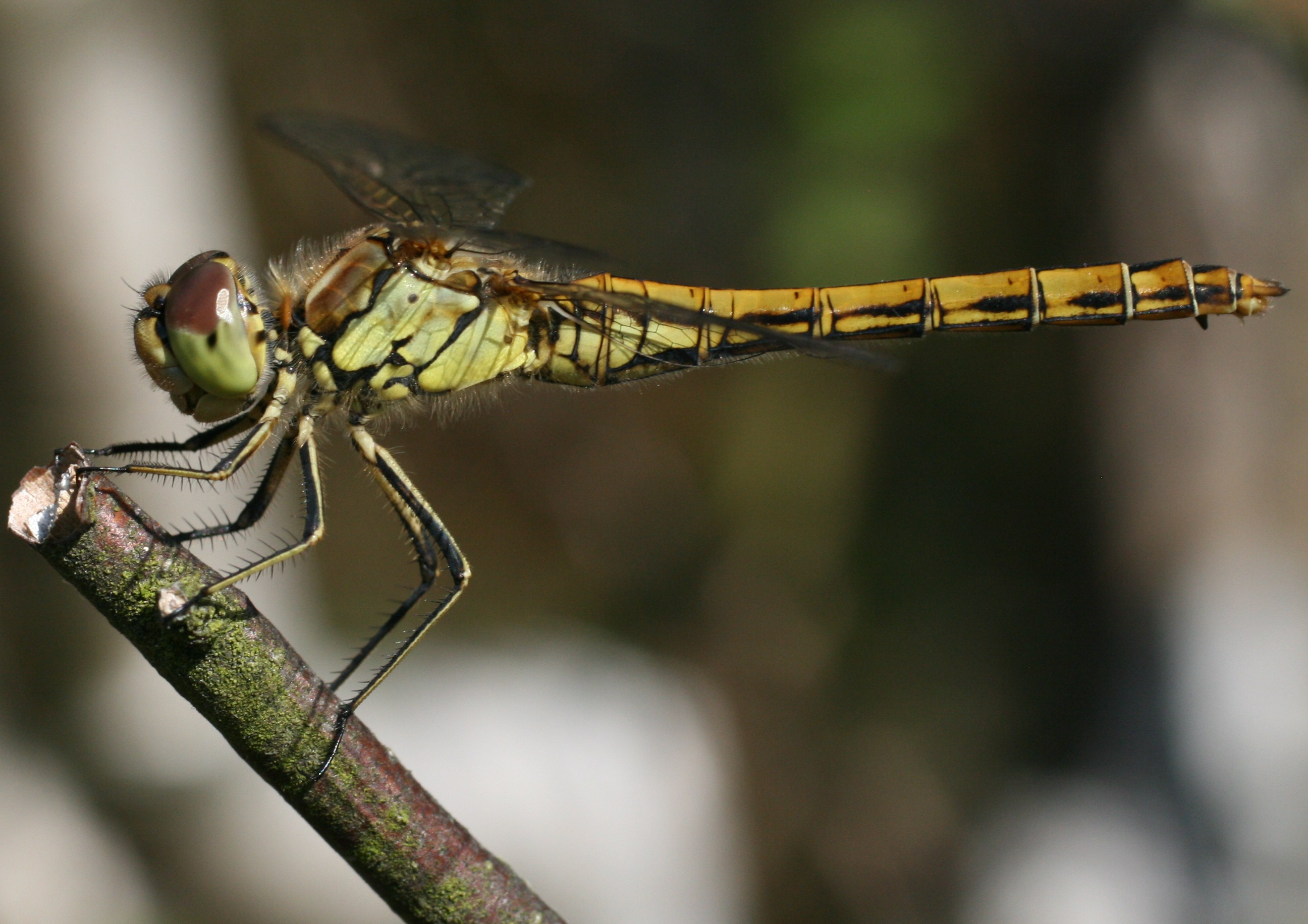 Sympetrum vulgatum seen in Lill-Jansskogen, Stockholm, Sweden.